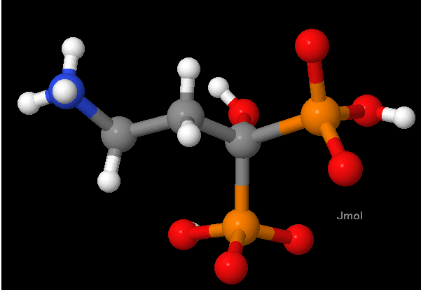 Pamidronic acid: Ball and stick molecular graphics created by program Jmol